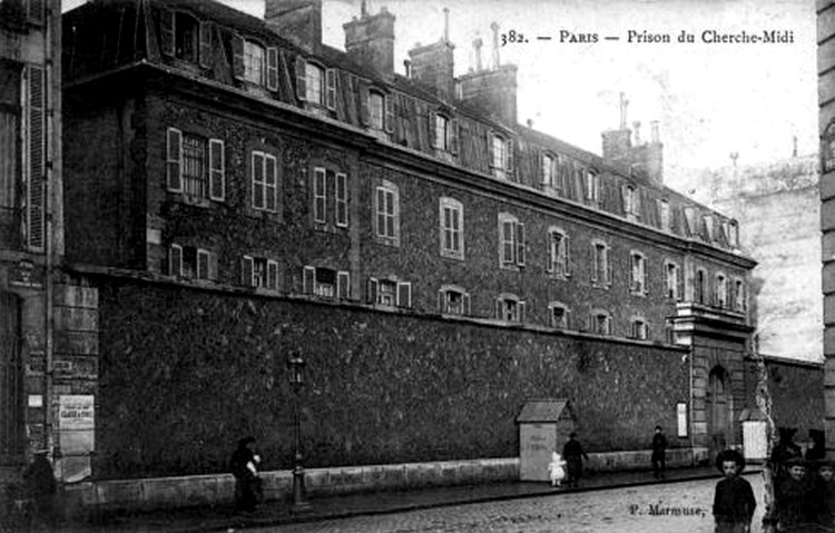 Prison du Cherche-Midi (demolished in 1966), 38 rue du Cherche-Midi, VIe arrondissement, Paris, France. Old postcard of 1910